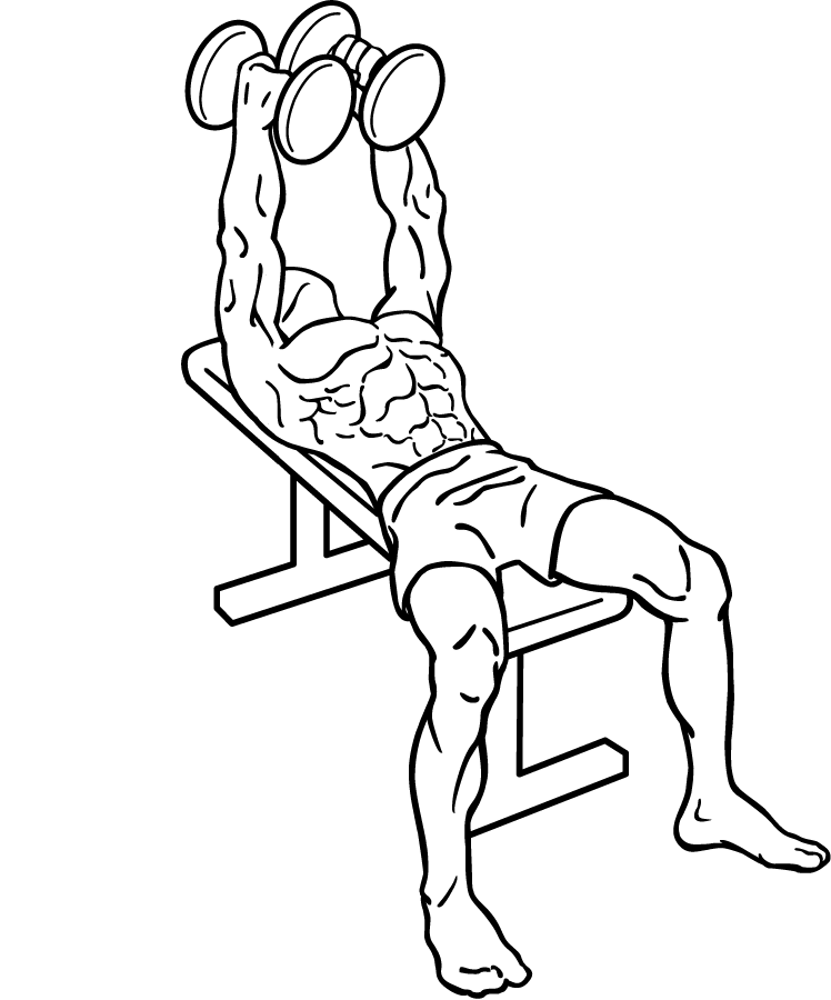 an exercise of chest